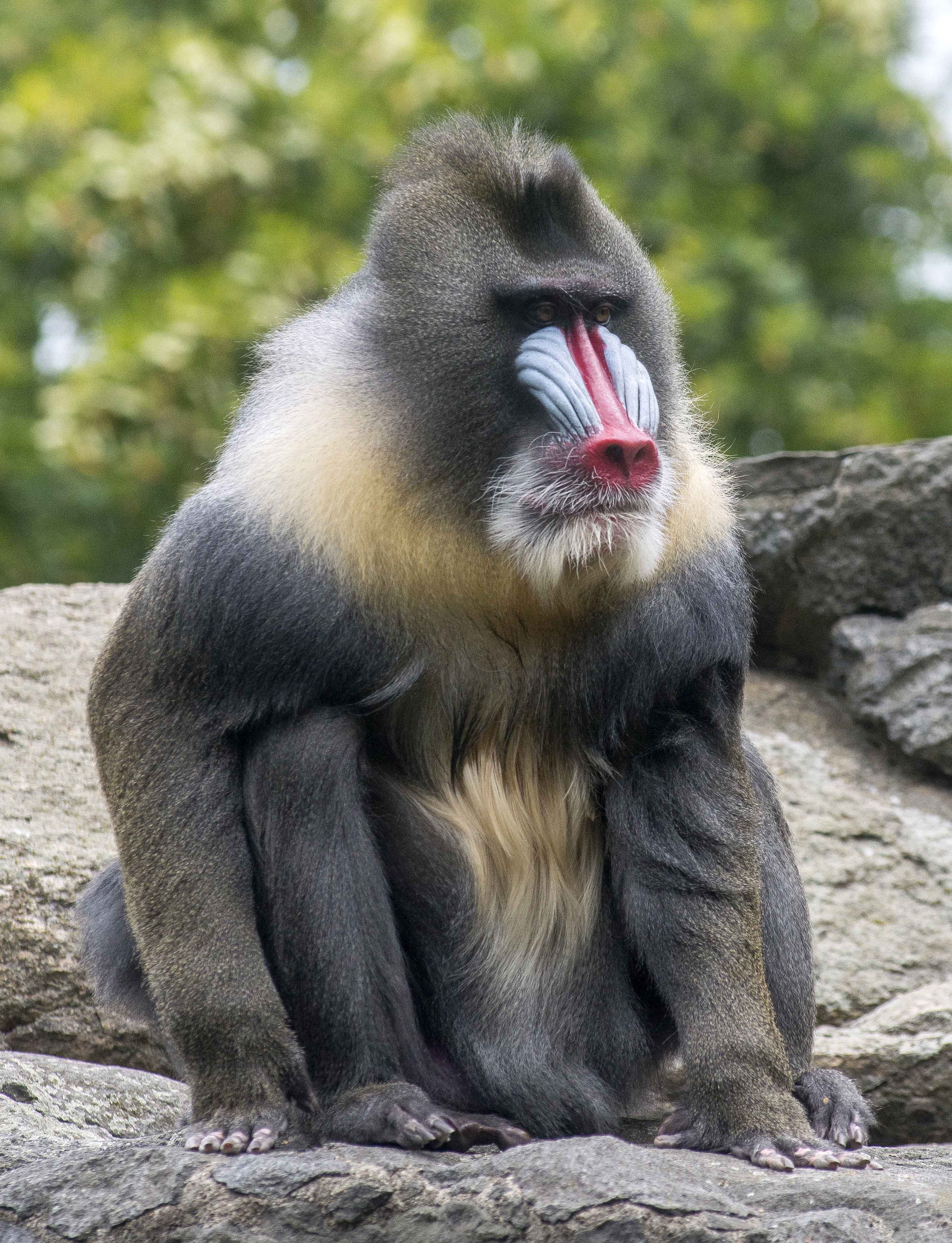 Mandrill in the Berlin Zoo